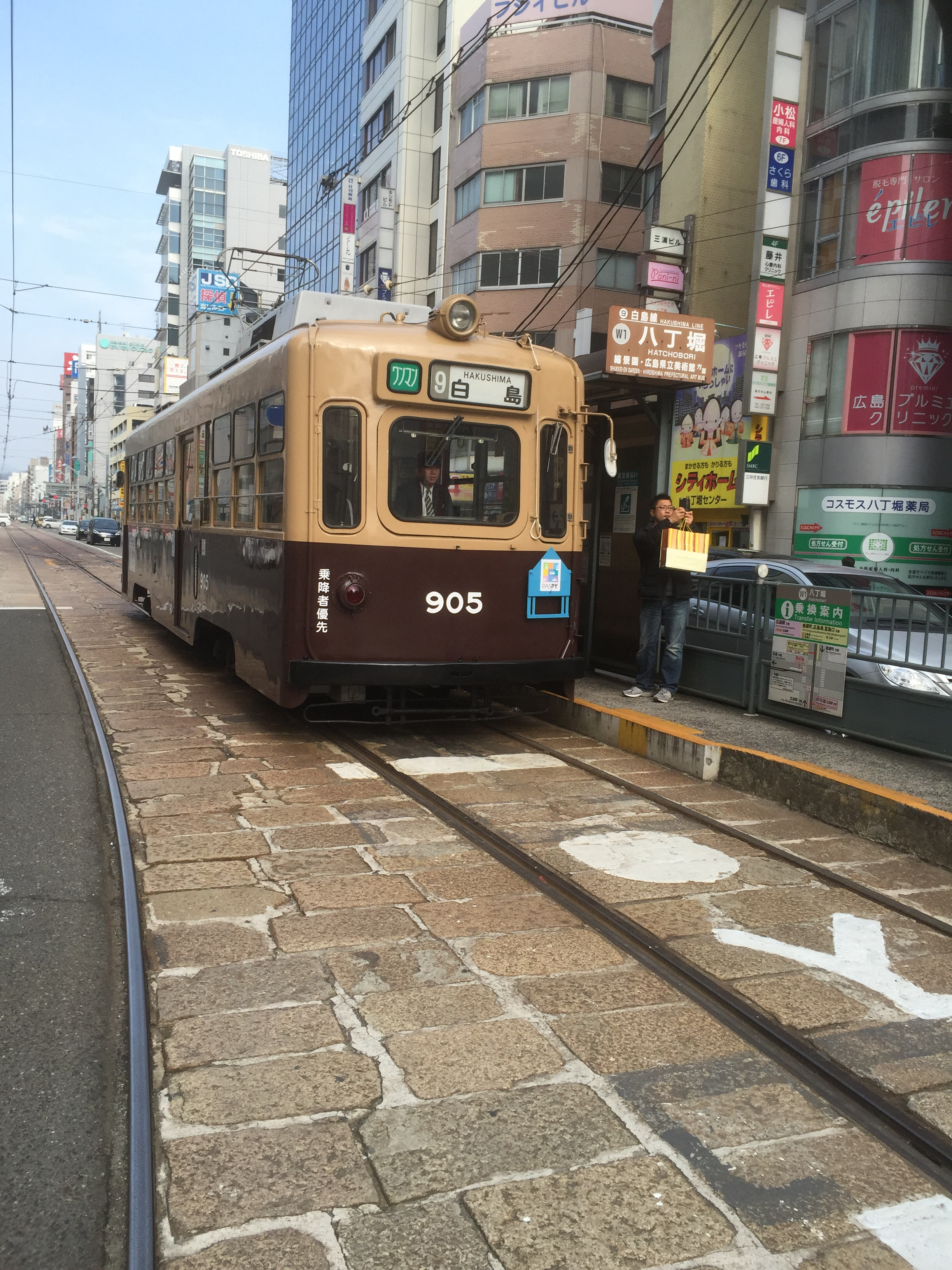 horoshima-city-train, (Tramway) "hacchoubori-station" HOROSHIMA-CITY JAPAN